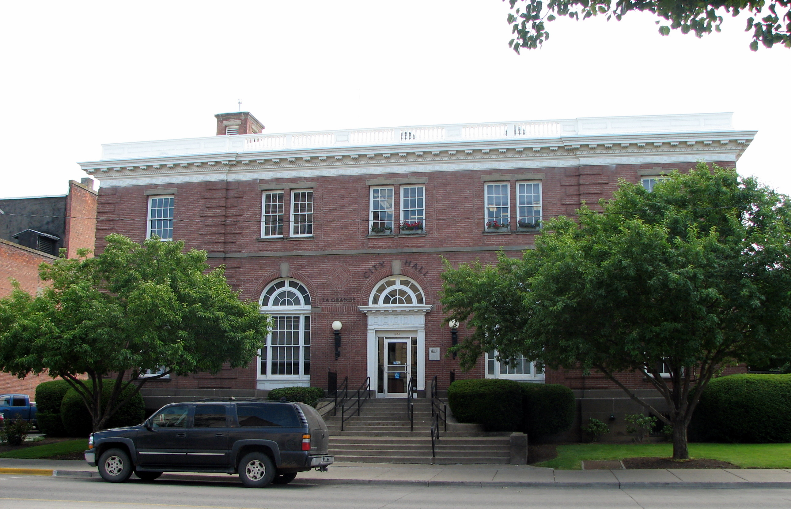 The City Hall (built 1911) of La Grande, Oregon, United States, located at 1000 Adams Street, is listed on the US National Register of Historic Places (NRHP) under its historic name "US Post Office and Federal Building".